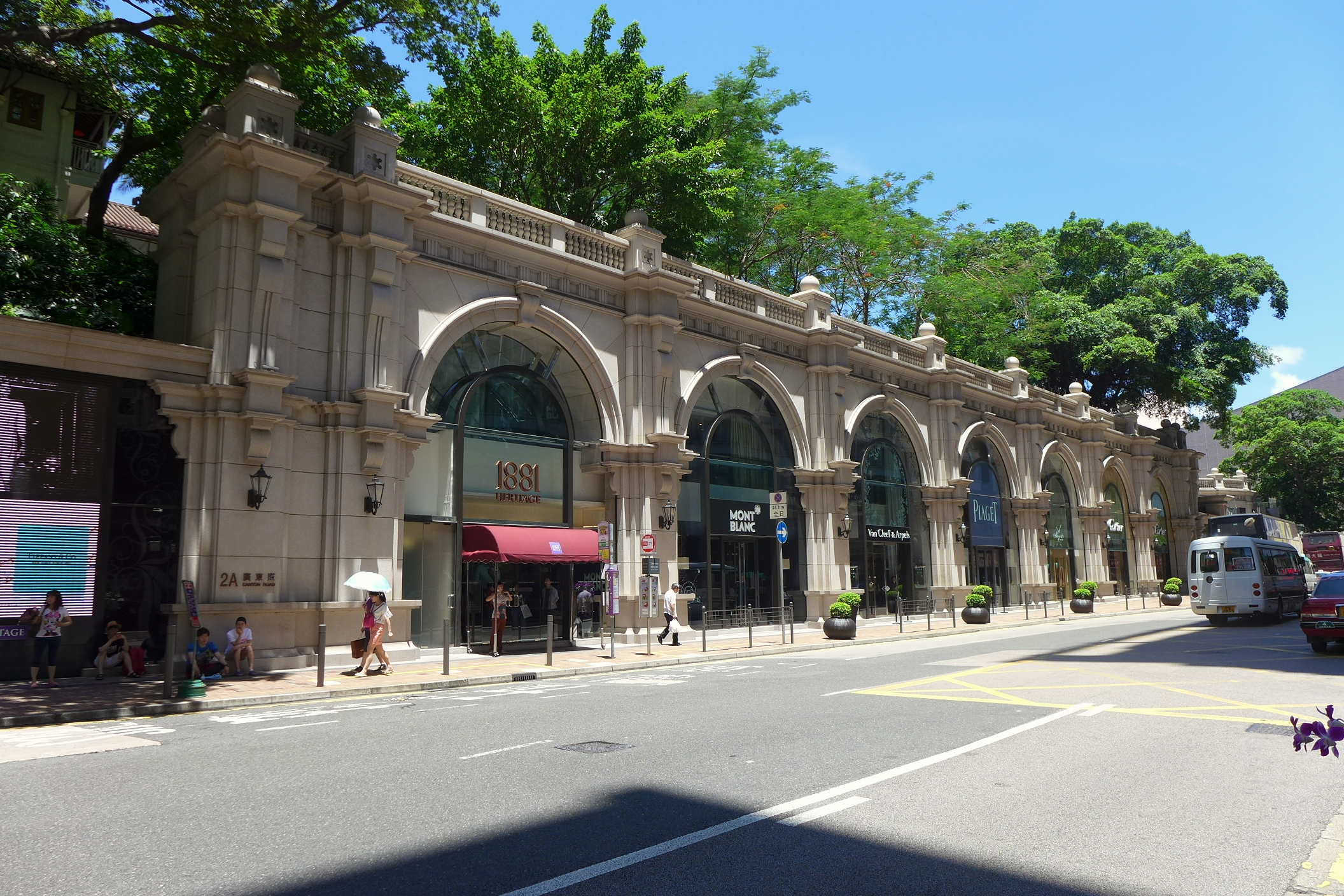 1881 Heritage Canton Road Shops View